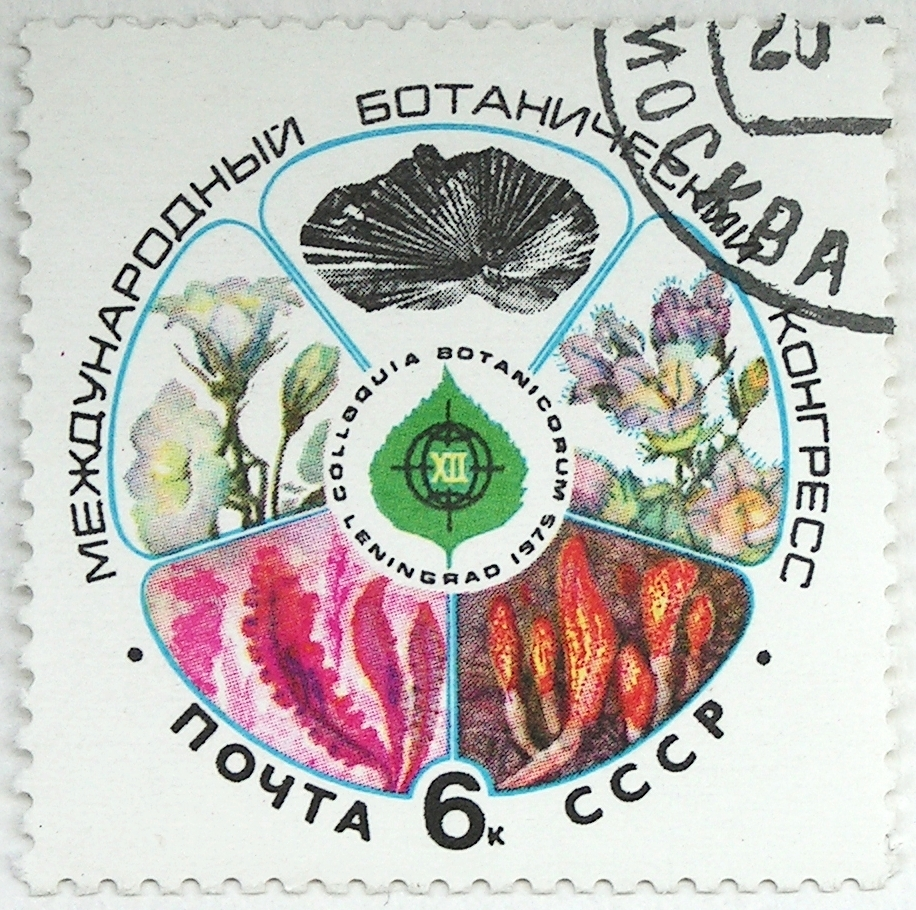 Postage stamp of the USSR. International Botanical Congress. 1975